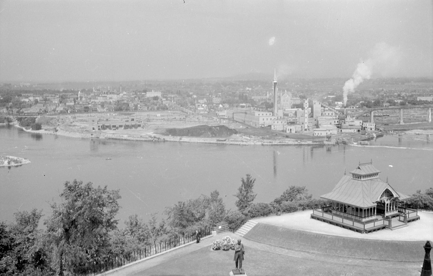 View of Hull from Parliament Hill in Ottawa.